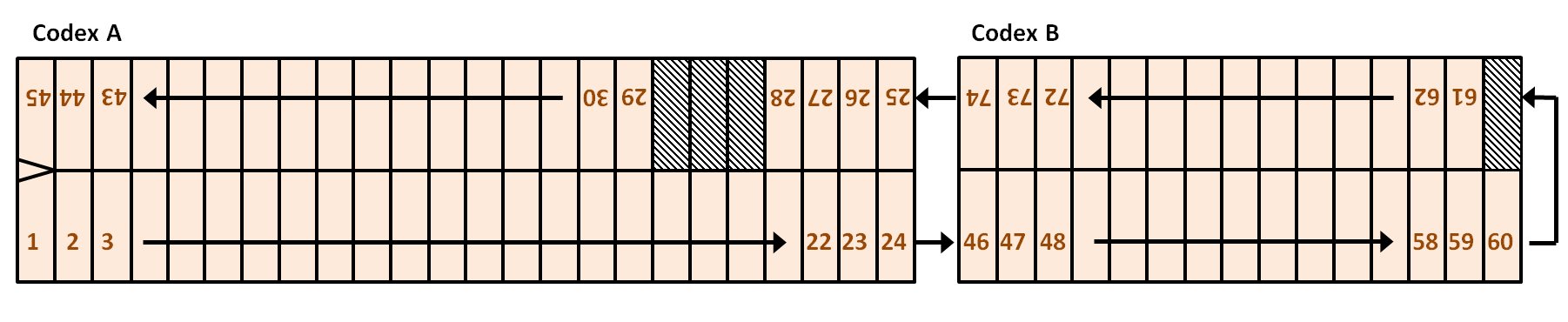 Original Page Sequencing of the Dresden Codex (with today's page numbers)